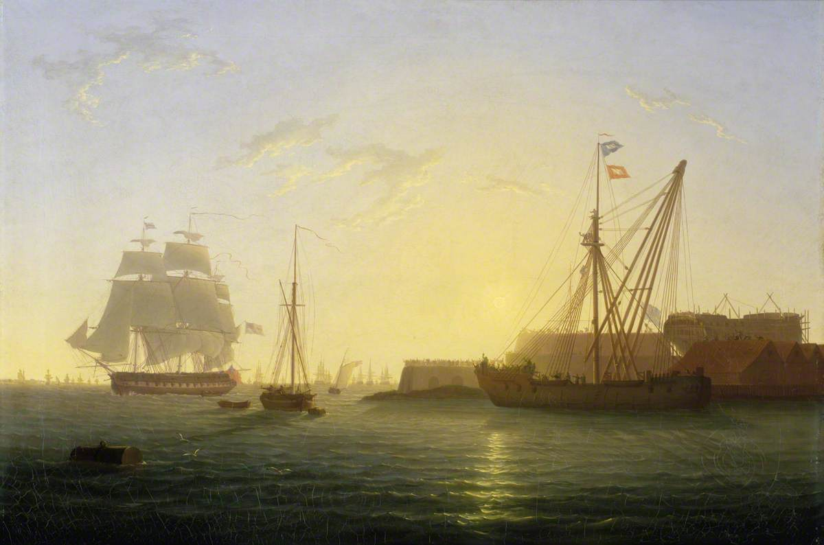 HMS 'Clyde' Arriving at Sheerness After the 'Nore' Mutiny, 30 May 1797. The 'Clyde' is shown arriving at sunrise in the Medway, off Sheerness Dockyard. She is in the left middle distance, in port-bow view, on the starboard tack, flying a white ensign but with a red one hanging over her port quarter rail as a signal. Nearer, centre left, is a cutter in starboard-bow view, moored to a buoy and with a boat under her stern. In the left foreground is a large mooring buoy. On the right of the picture, against the rising sun, is a sheer hulk used for masting or de-masting ships, shown in bow and starboard-broadside view, with people waving to the 'Clyde' in her stern. Beyond the hulk is part of Sheerness Dockyard, with buildings, a ship on the stocks and a crowd of people waving on the fortifications. In the distance to the north-east ships of the mutinous fleet lie at anchor. The painting is one of two commemorating the Clyde's escape from the Nore under her captain, Charles Cunningham. The first depicts the daring night time escape.